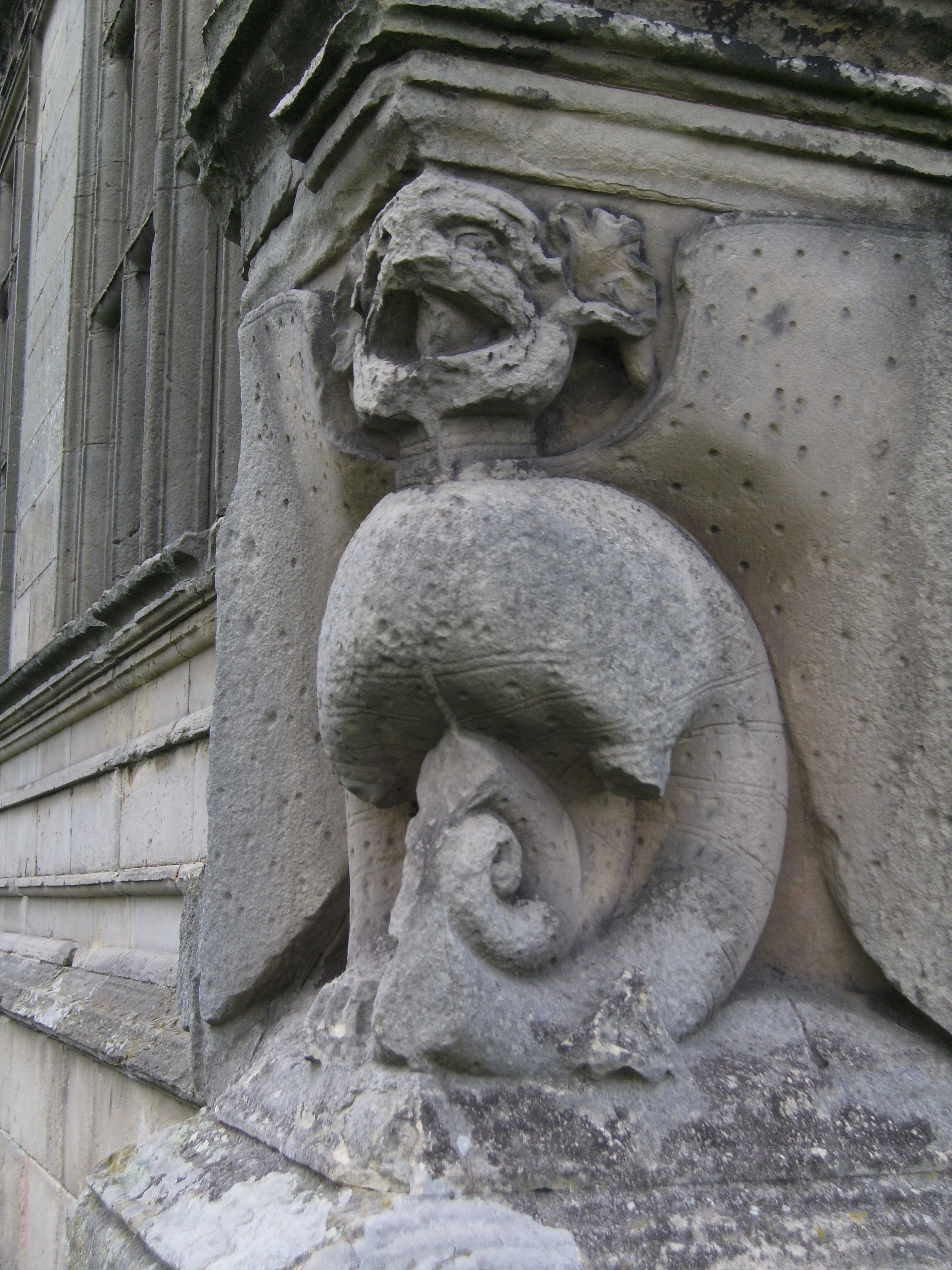 Chimera on west corner of Elizabethan frontage. Moreton Corbet Castle, Shropshire.